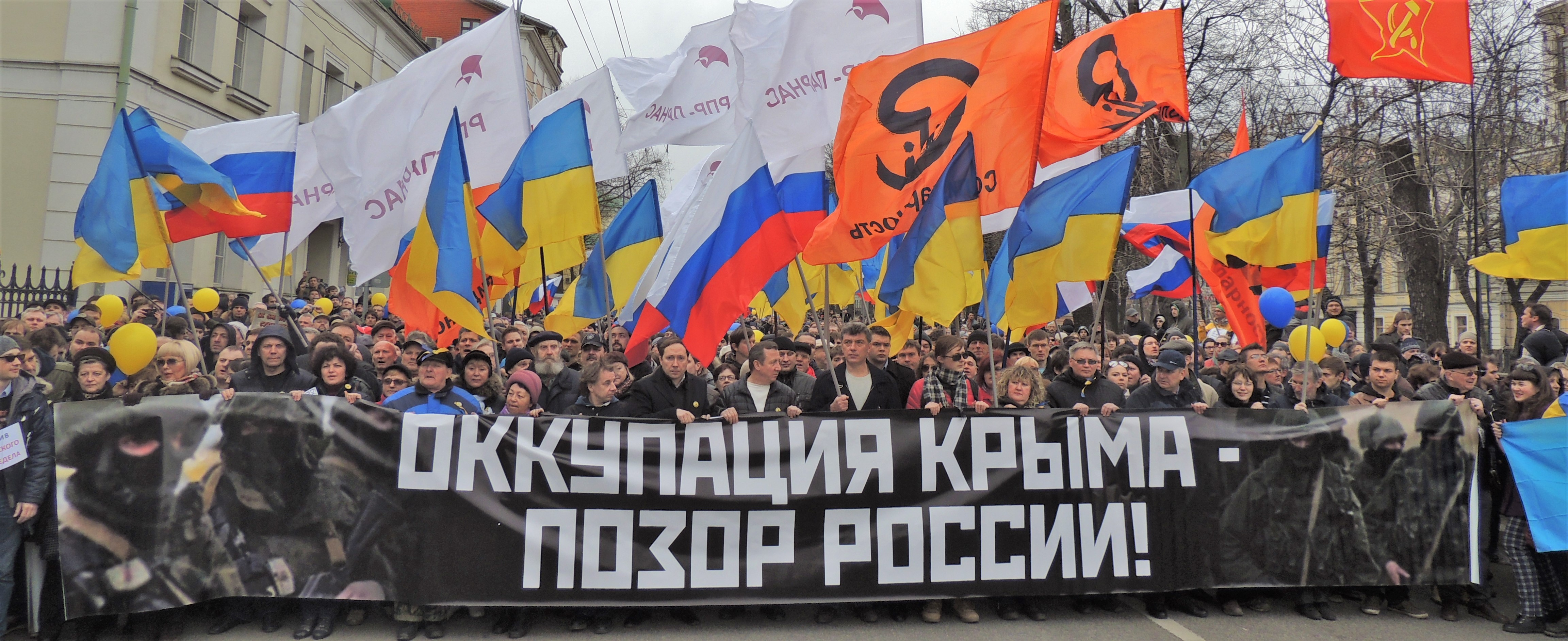 March of Peace (2014-03-15, Moscow), slogan "Occupation of the Crimea is a shame of Russia"